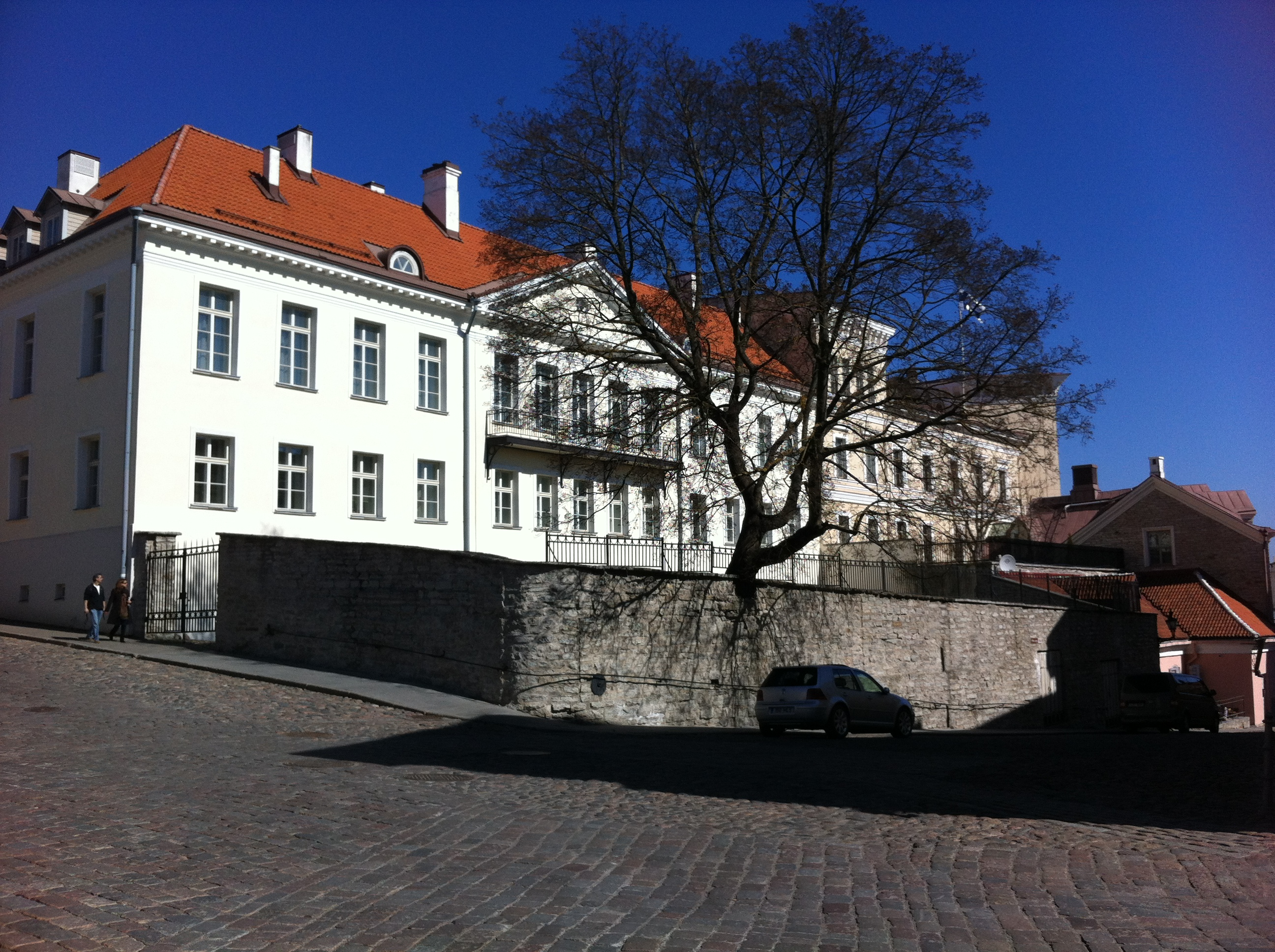 Old Town, Tallinn, Estonia